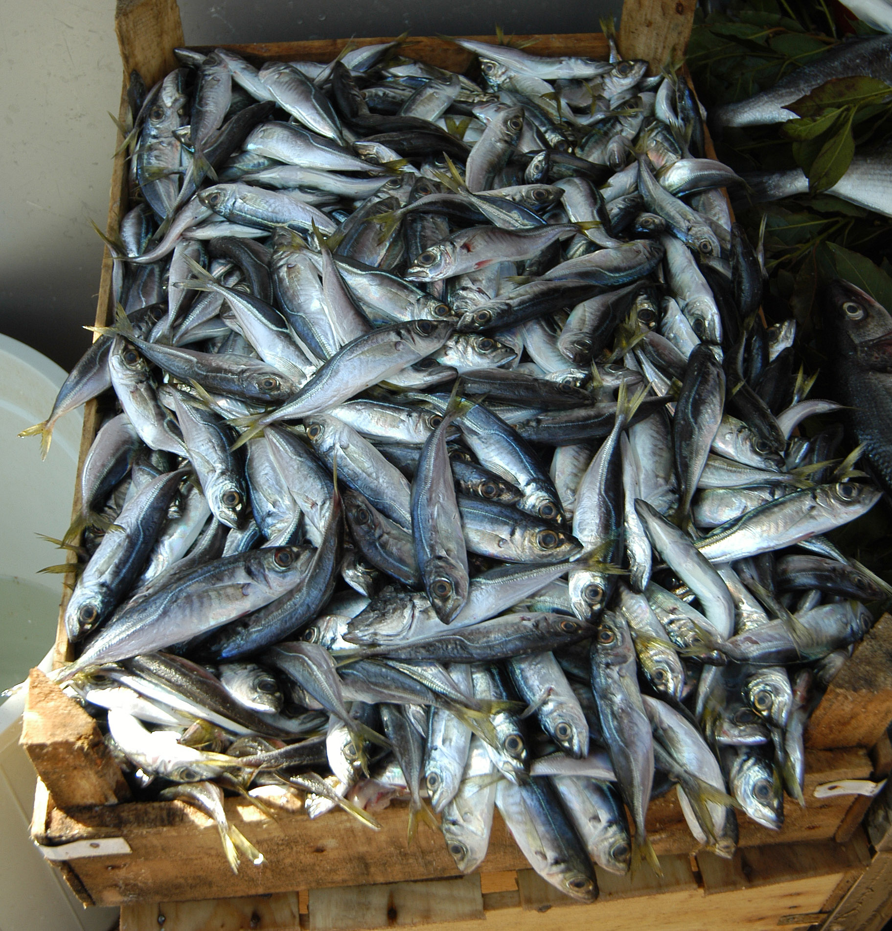 Please report references to kulacgmx.at.